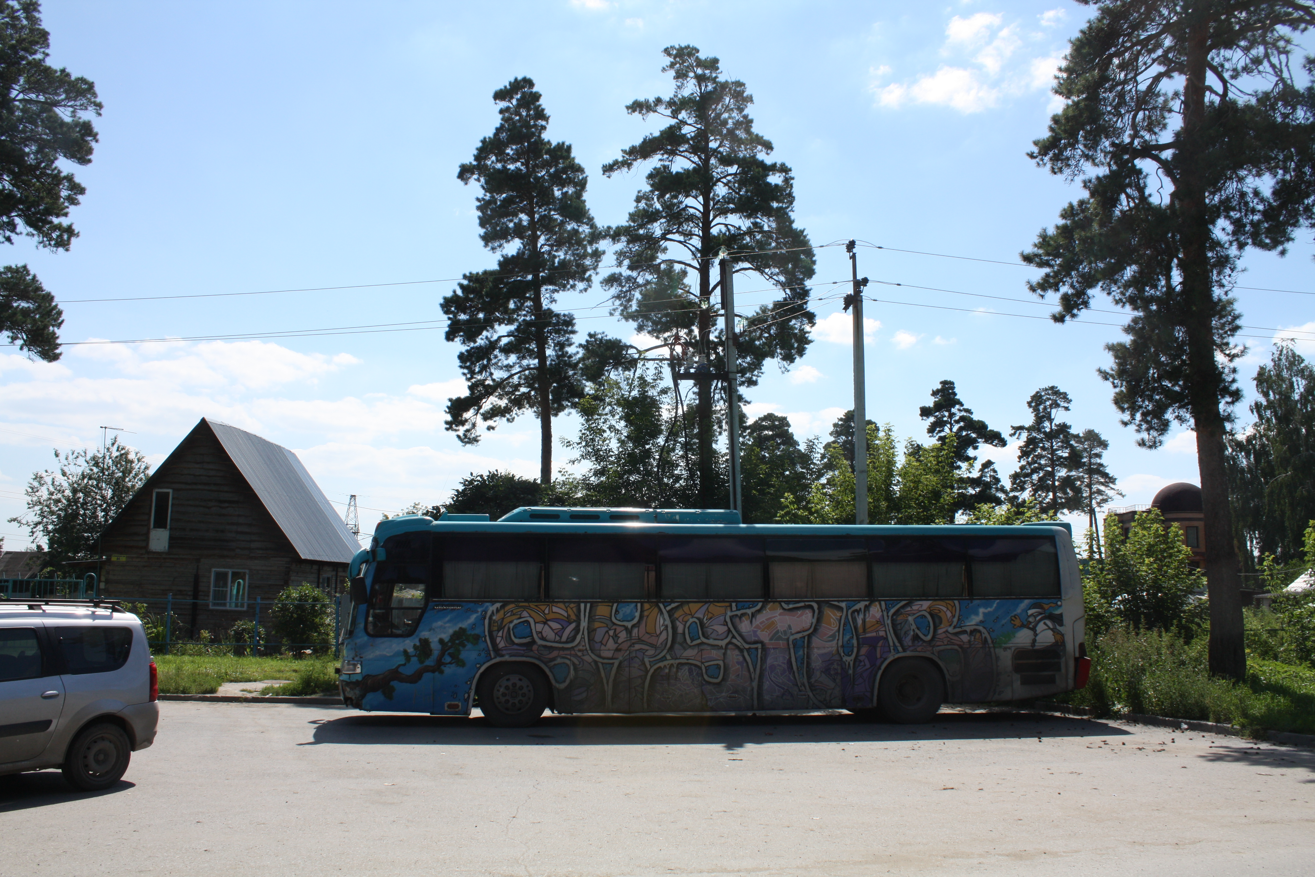 Bus stop. Sukhrnaya Street, Zayeltsovsky City District, Novosibirsk.